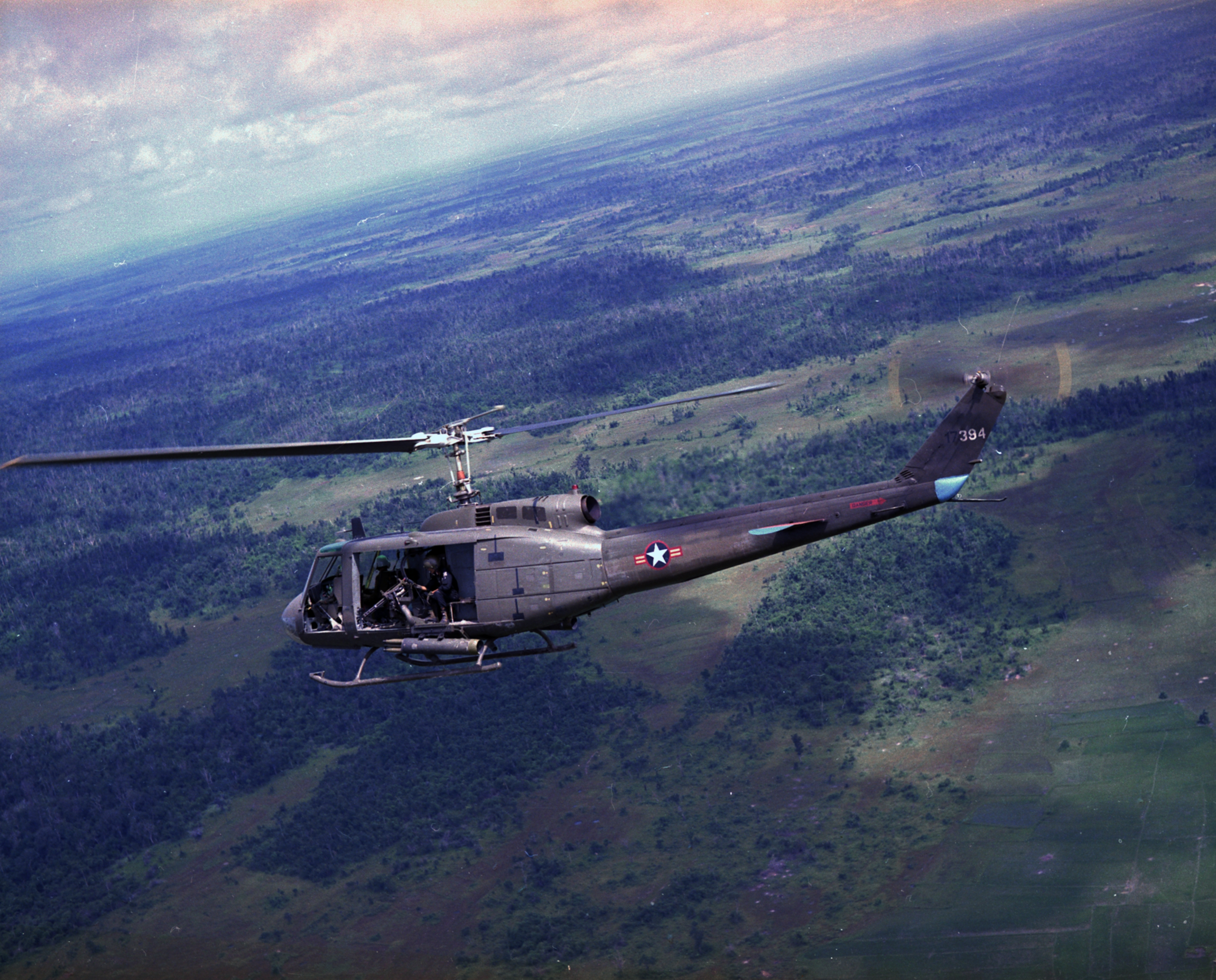 A South Vietnamese Air Force Bell UH-1H Huey helicopter in flight, August 1971. It is armed with rocket launchers and 7,62 mm miniguns.